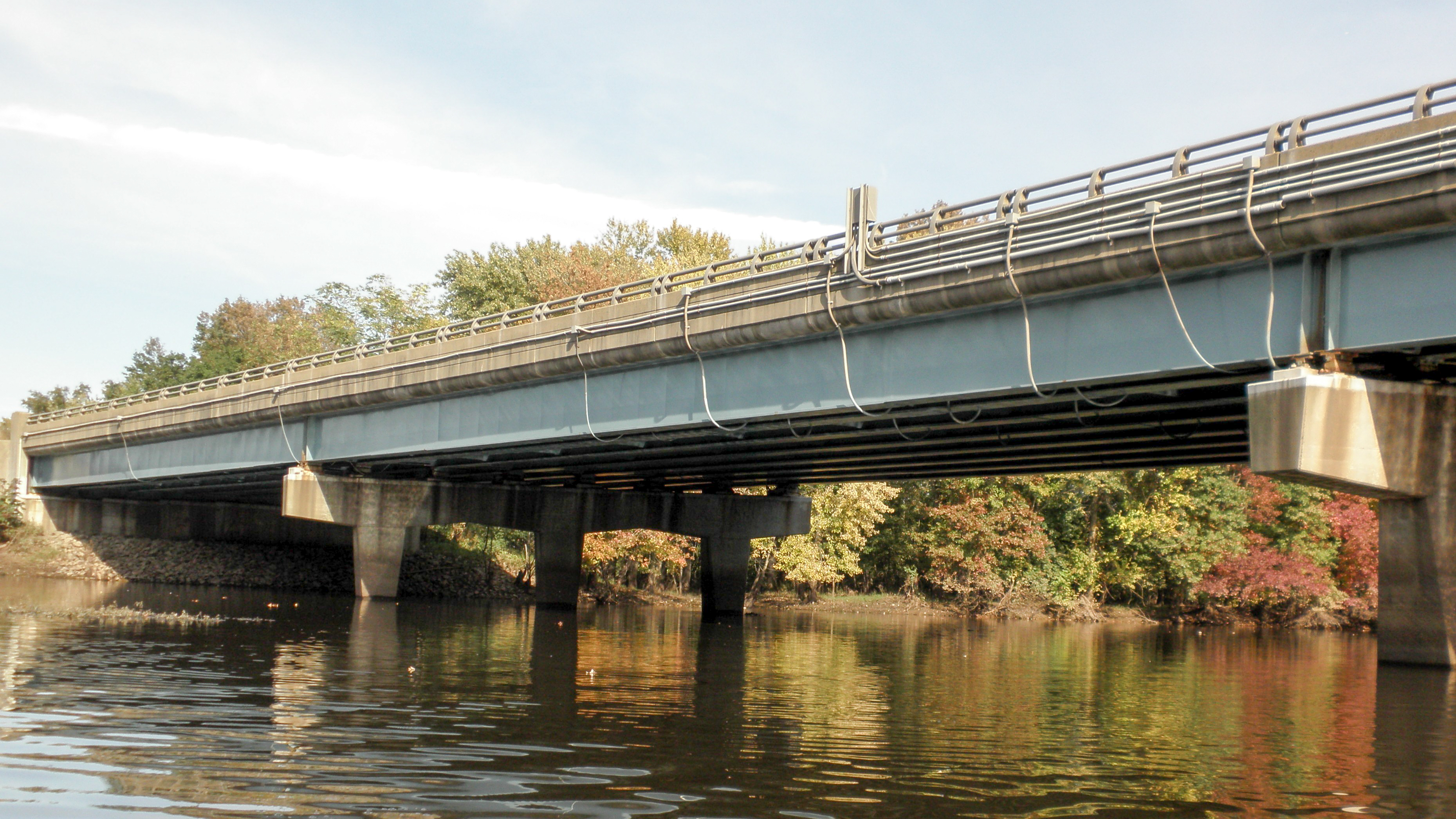 Christopher Columbus Highway (Interstate 80) Eastbound Bridge over the Passaic River, Montville - Fairfield Township, New Jersey (looking northwest by kayak)